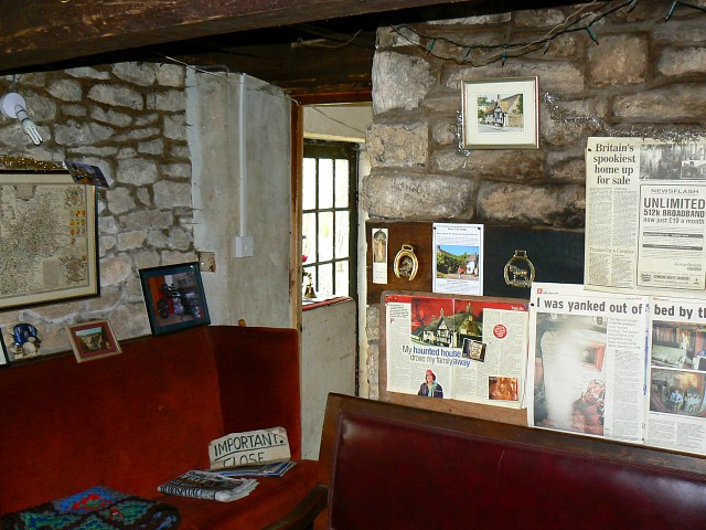 Ram Inn interior, Potter's Pond, Wotton under Edge. One of two images intended to provide an indication of the character of the interior of this old building. There are several newspaper cuttings to be seen, mostly focusing on the various ghosts that reportedly inhabit the place. The owner was, it has been stated, yanked out of bed on his first night in residence by one of the incumbents wishing to make his or her presence known. Second interior 779810